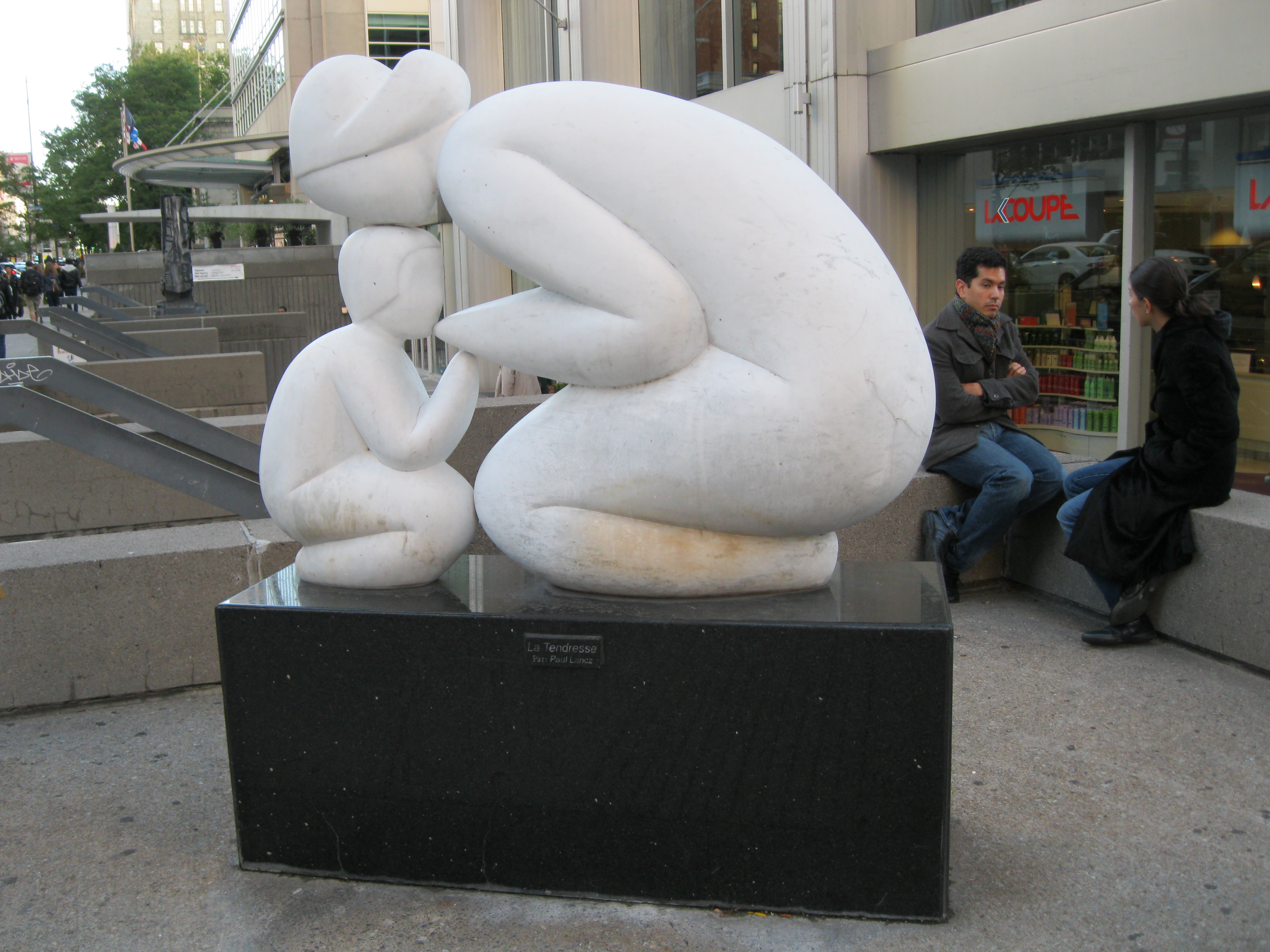 Paul Lancz's sculpture called Tenderness depicting mother and child in white carrera marble is located on Sherbrooke Street in Montreal.